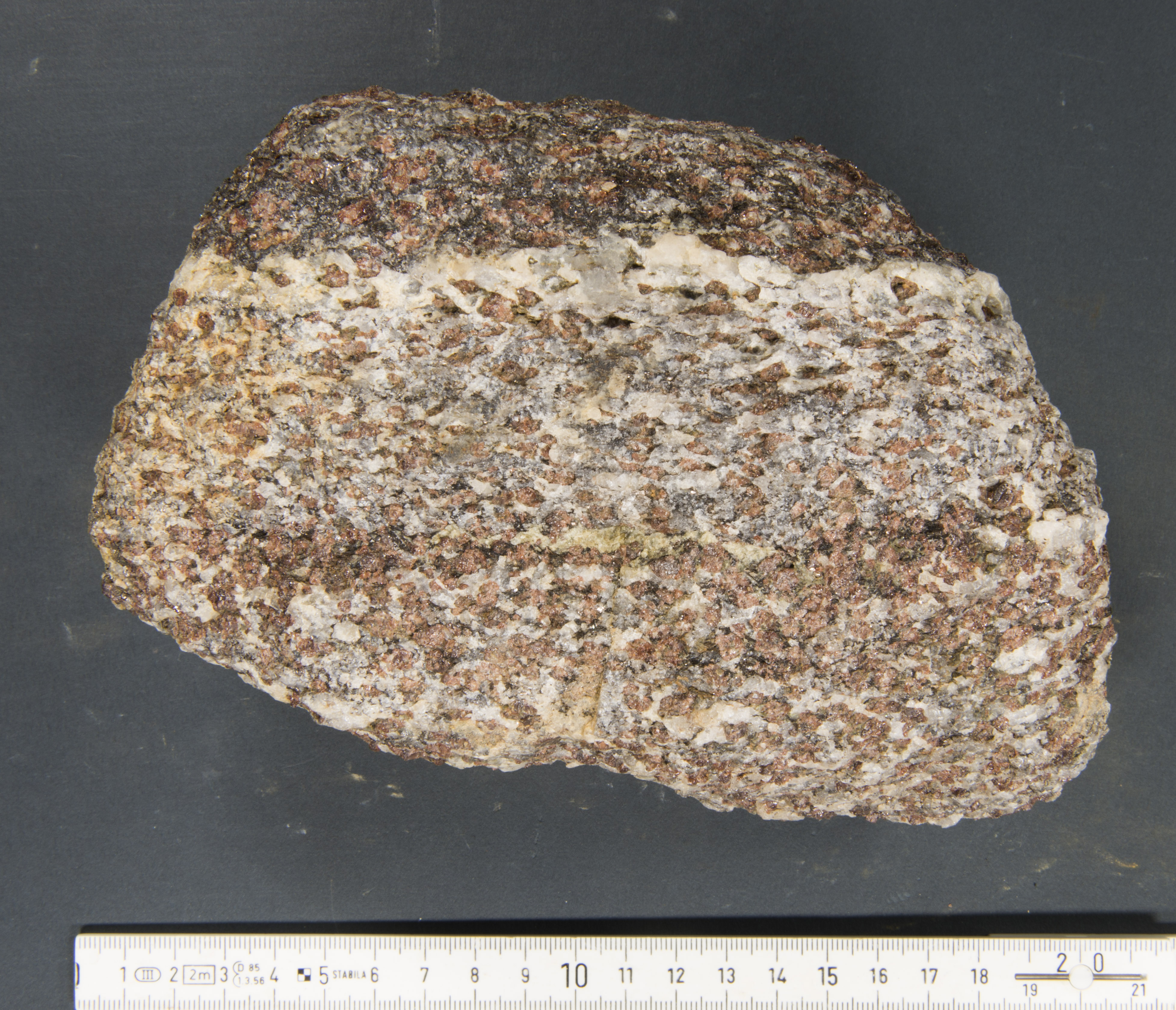 Granat-Gneis, Mather Peninsula, Prydz Bay, Antarktis